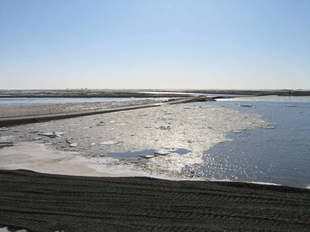 Kuparuk River photographed from the east river crossing looking west at 7PM on 30-May, 2011.